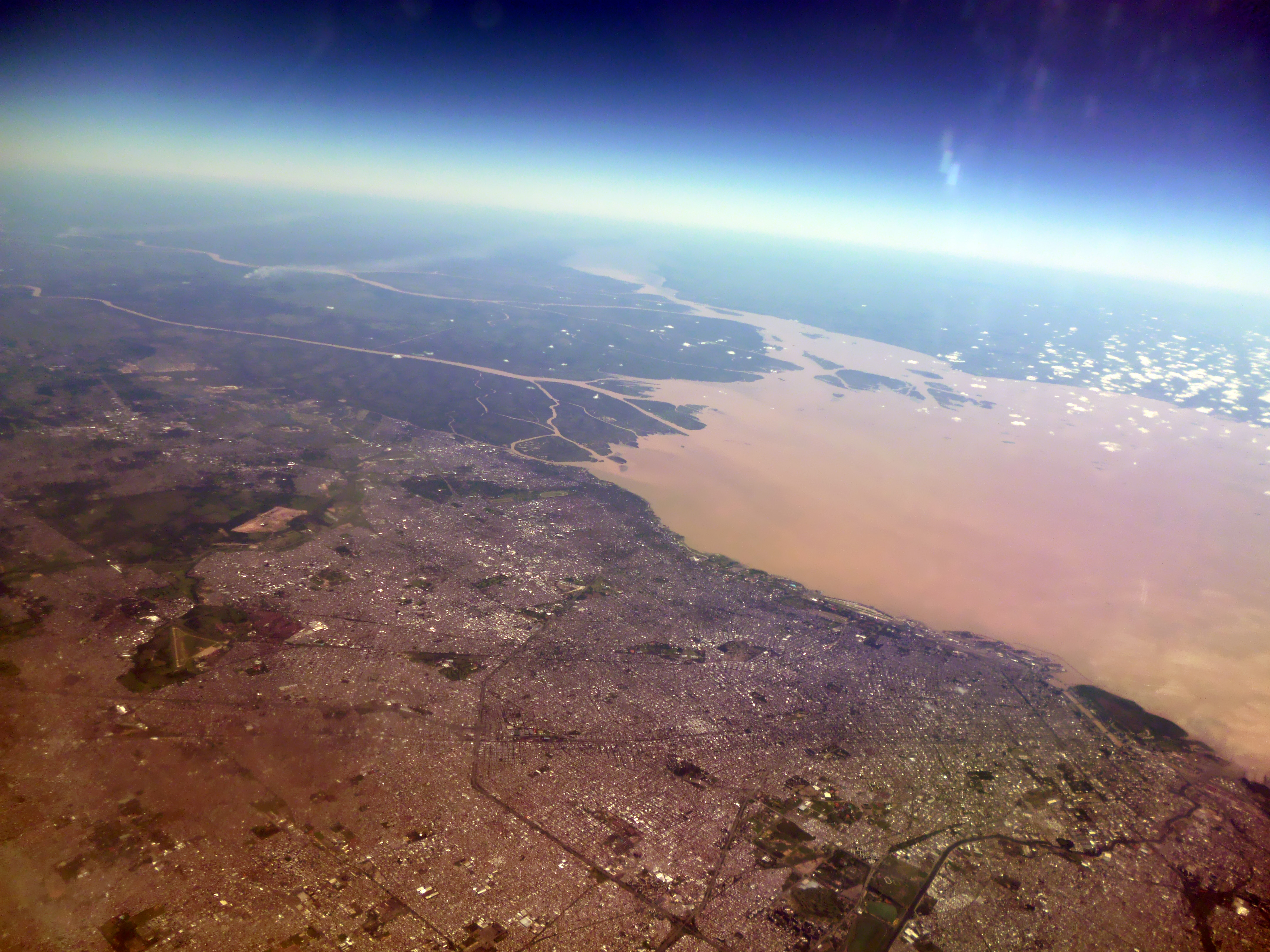 Aerial view of Buenos Aires and River Plate.